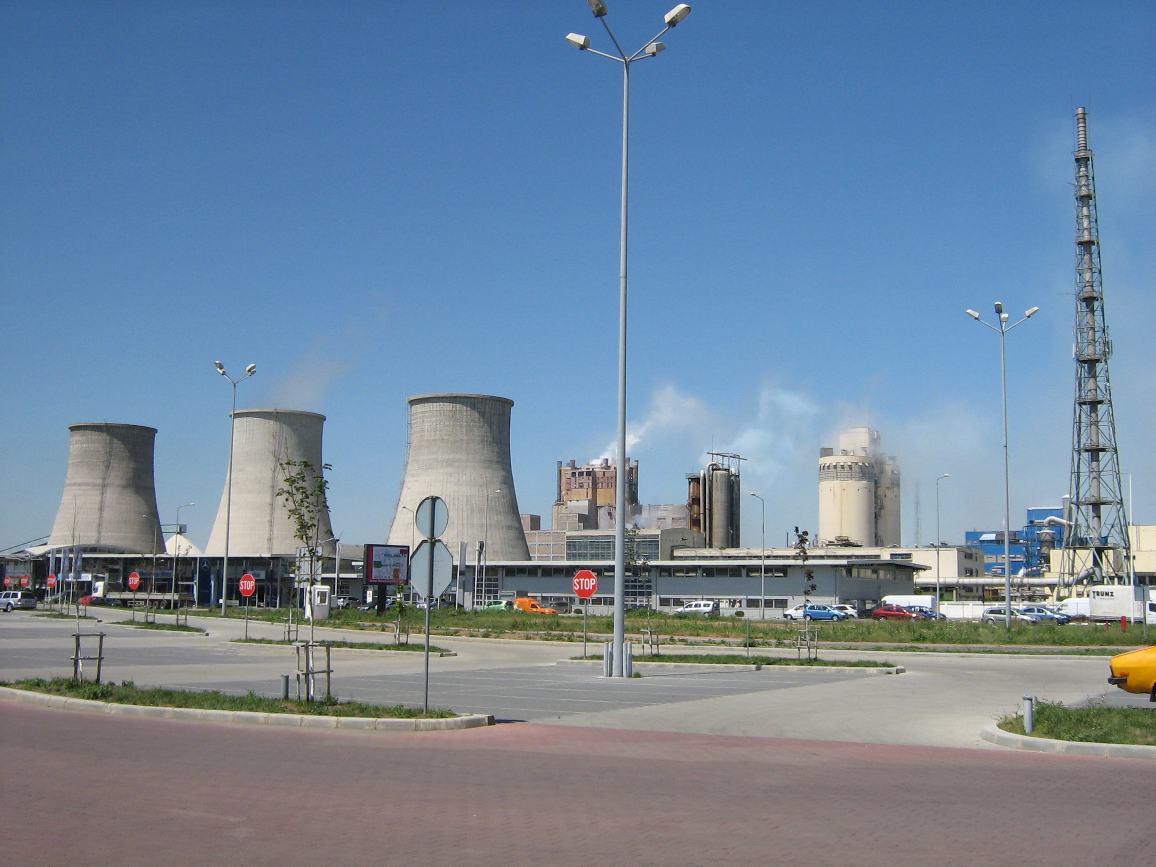 Azomures chemical factory